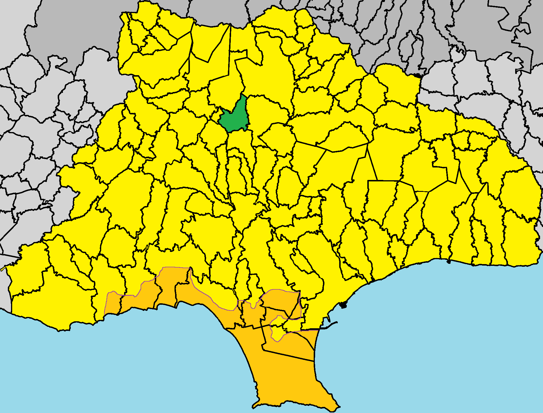 Trimiklini in Limassol District.